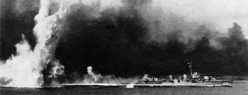 The U.S. Navy Fletcher-class destroyer USS Kidd (DD-661) dropping depth charges during maneouvers, in 1958.